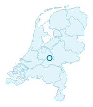 Location of Kolland and Overlangbroek